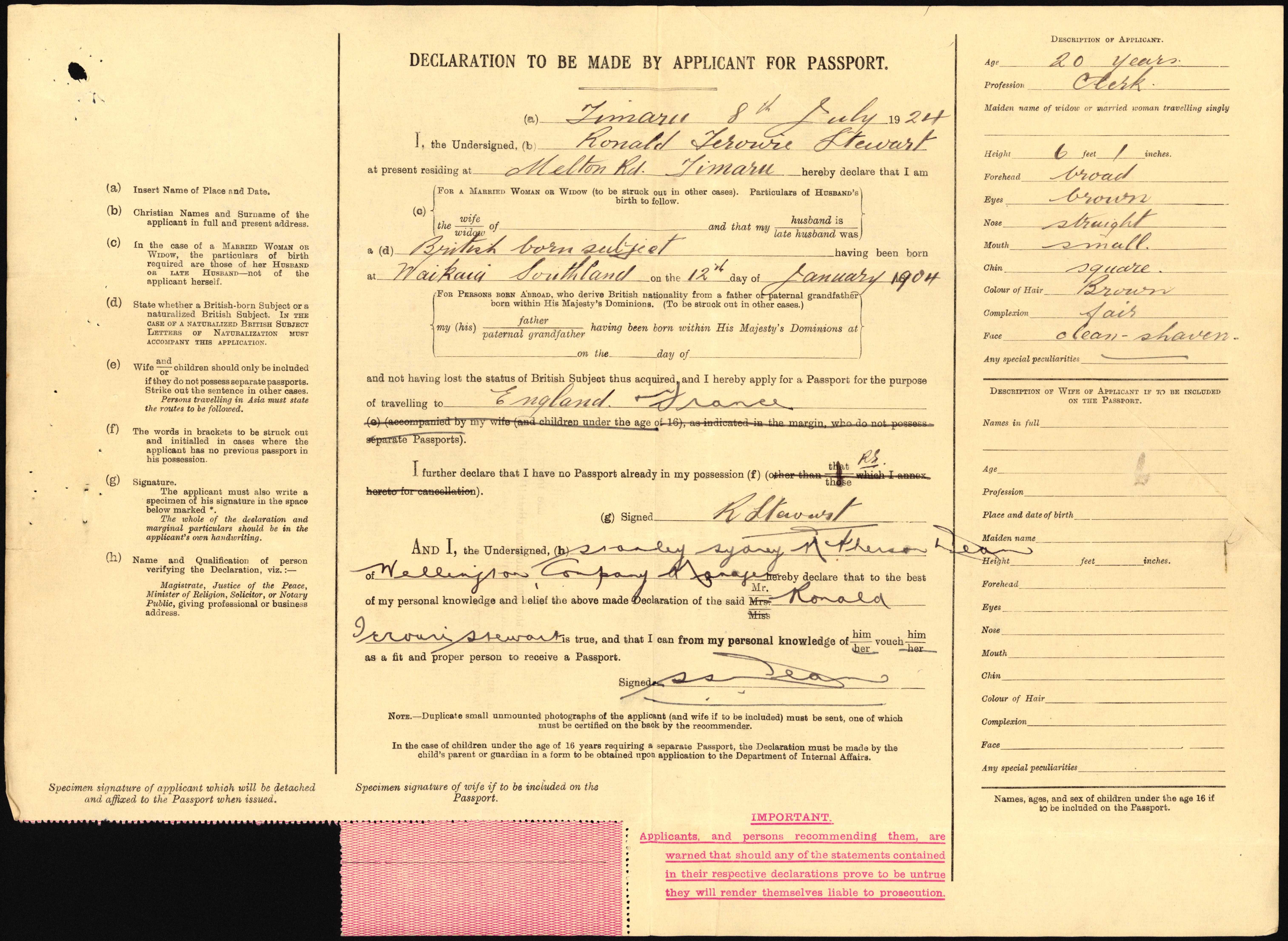 ACGO 8333 IA1 1349 / 15/11/17721 Ronald Stewart passport application (1924)